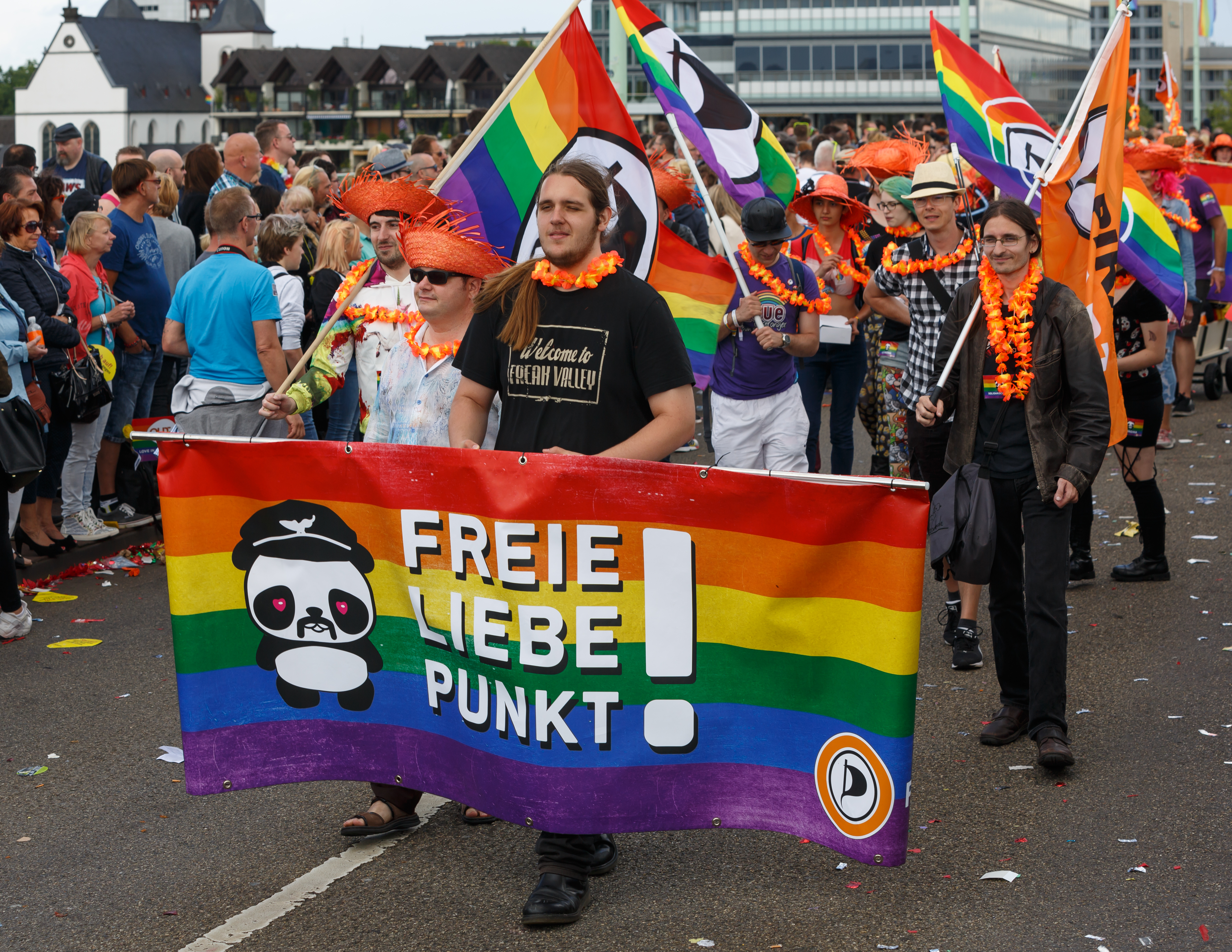 Cologne, Germany: Participants of the political party "Piratenpartei" (Pirates party) of the Cologne Pride Parade 2016